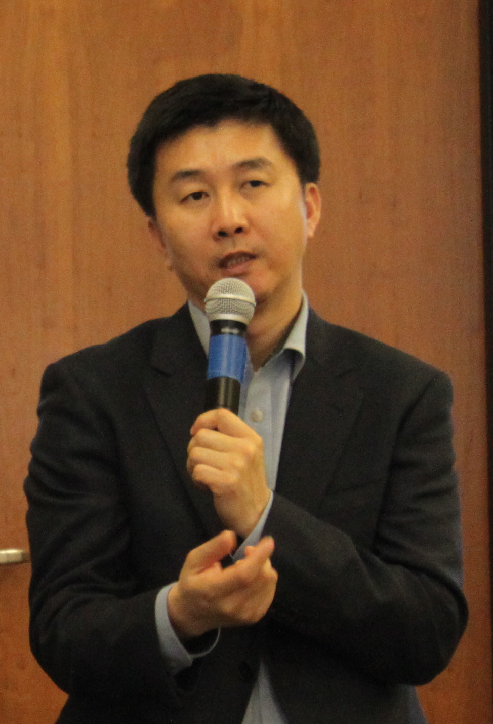 North Korean human rights activist Kang Chol Hwan at a Q&A with Wikimedia Foundation staff.